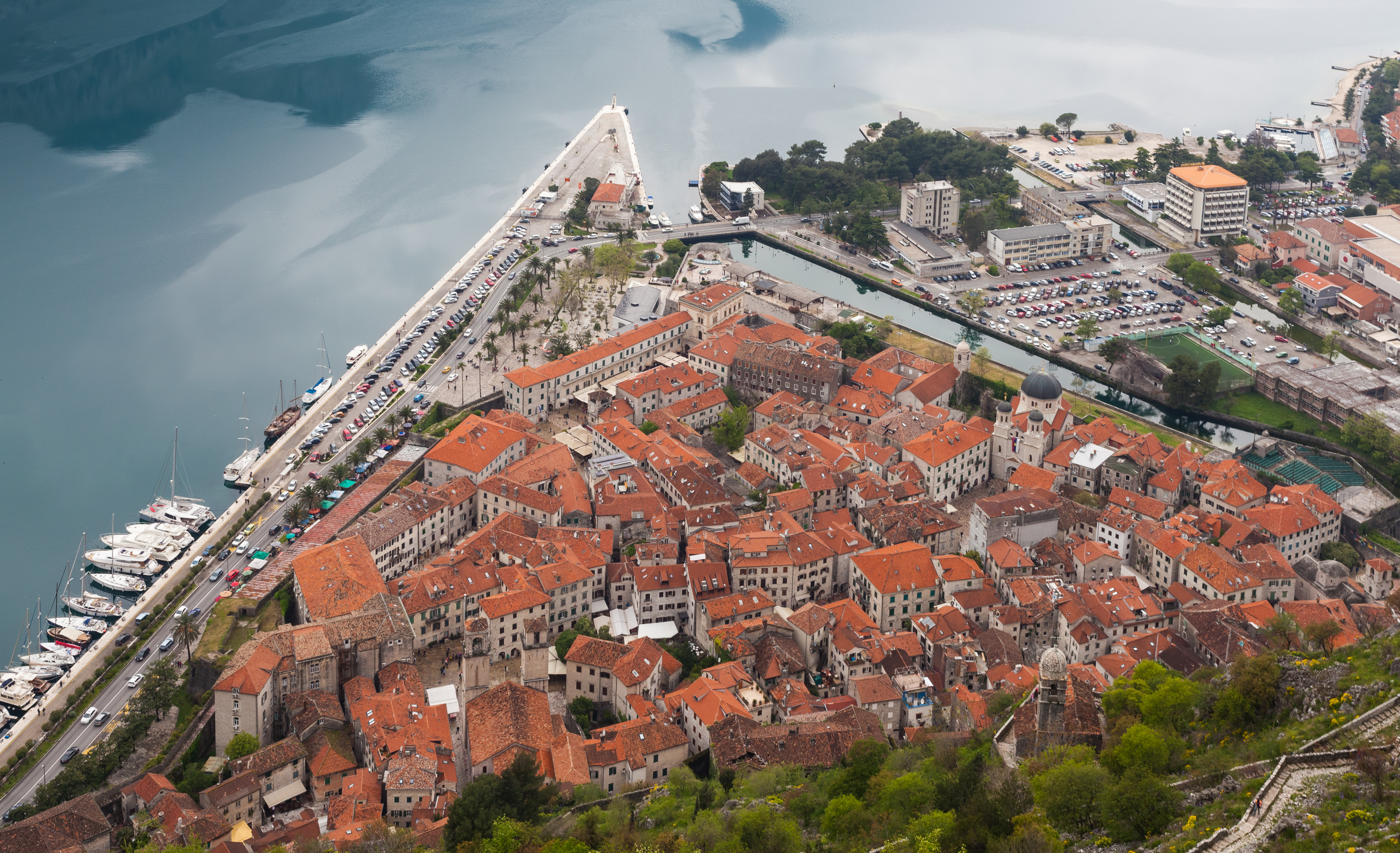 View of Kotor, Bay of Kotor, Montenegro